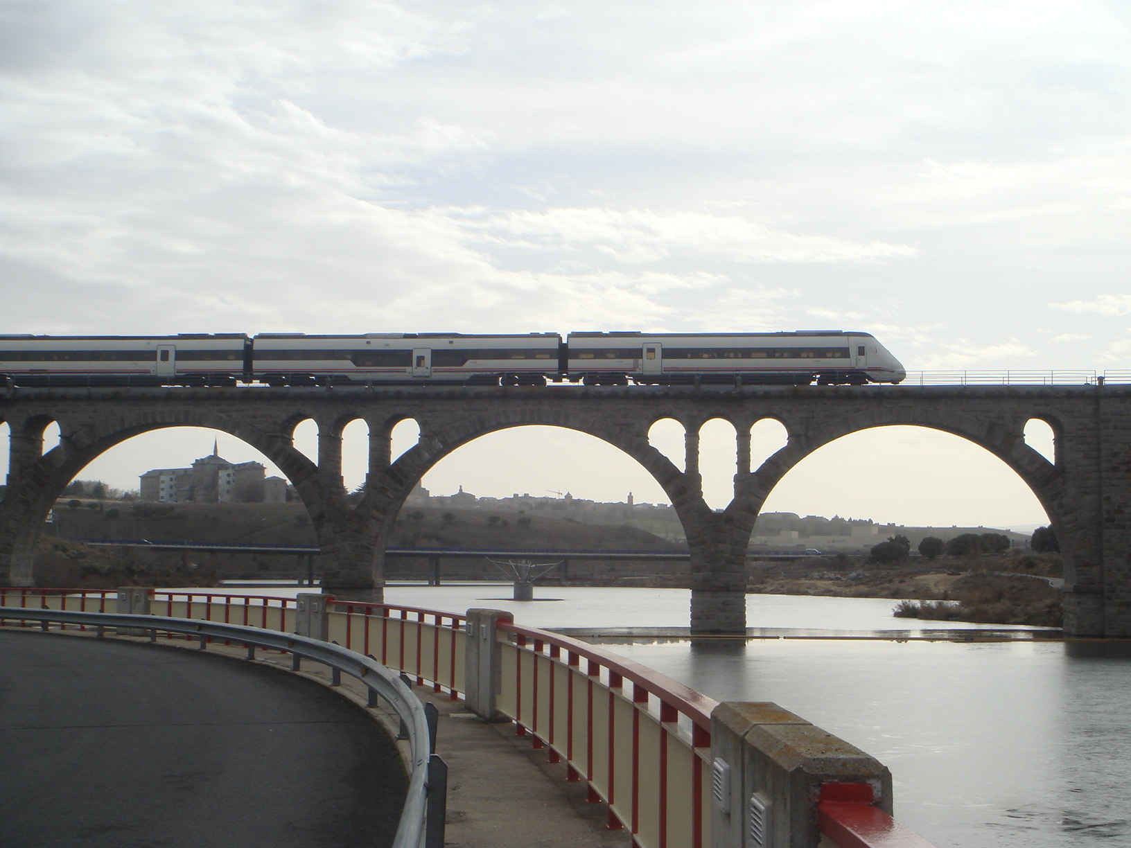 Railway bridge over Adaja river, at Ávila, Spain.